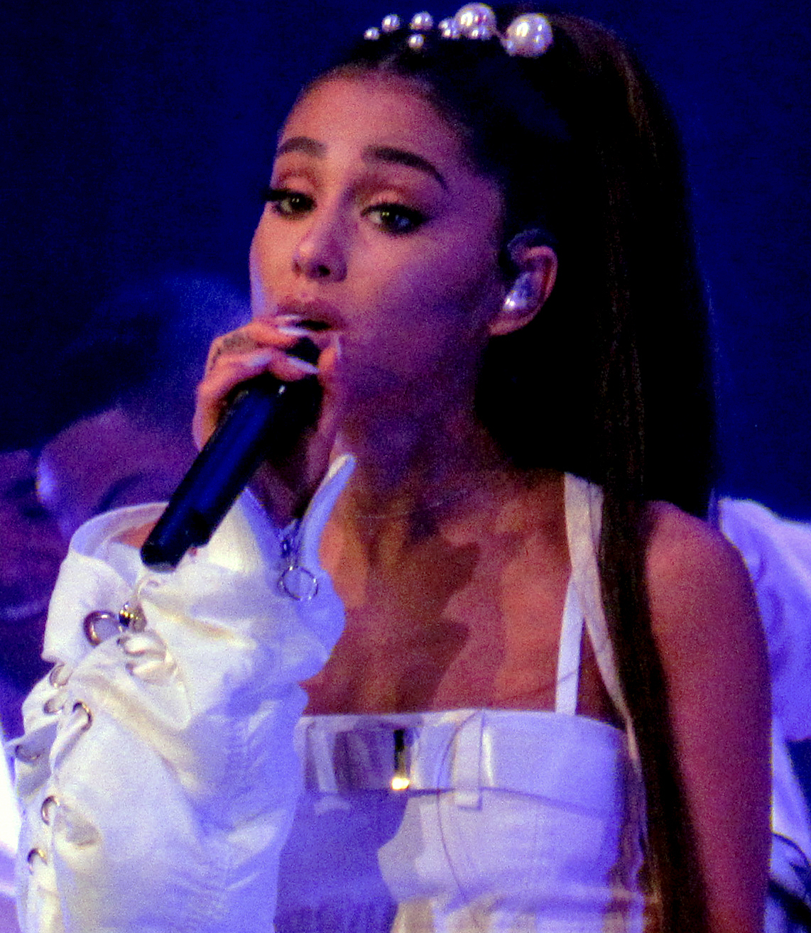 Ariana Grande performing during Dangerous Woman Tour on February 19, 2017.